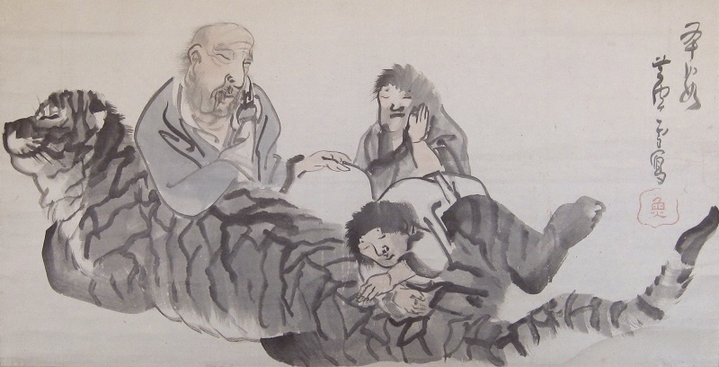 Four Asleep, by Nagasawa Rosetsu, Homma Museum of Art, Sakata, Yamagata, Japan